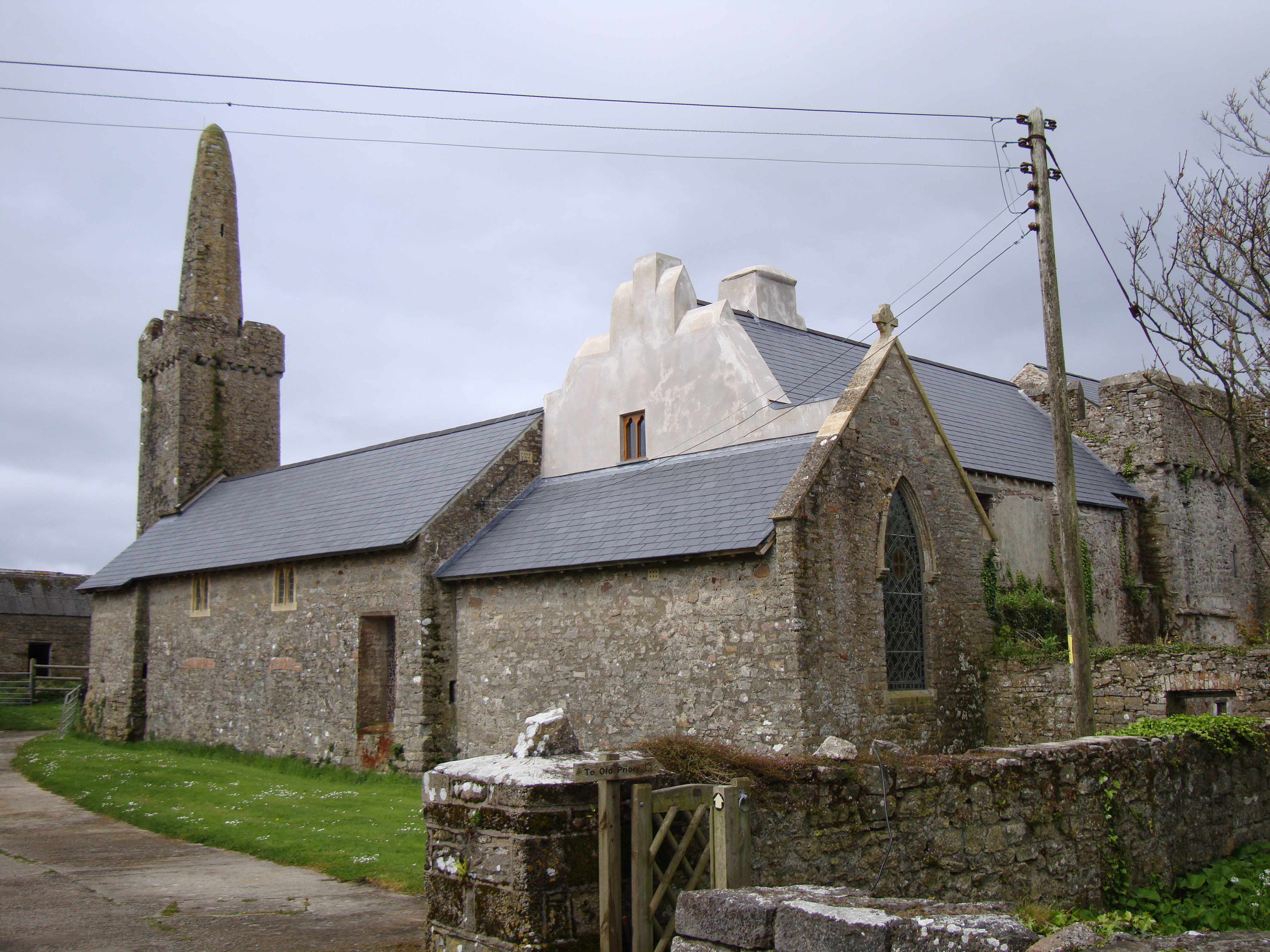 Photograph of Caldey Island Priory, Pembrokshire, Wales